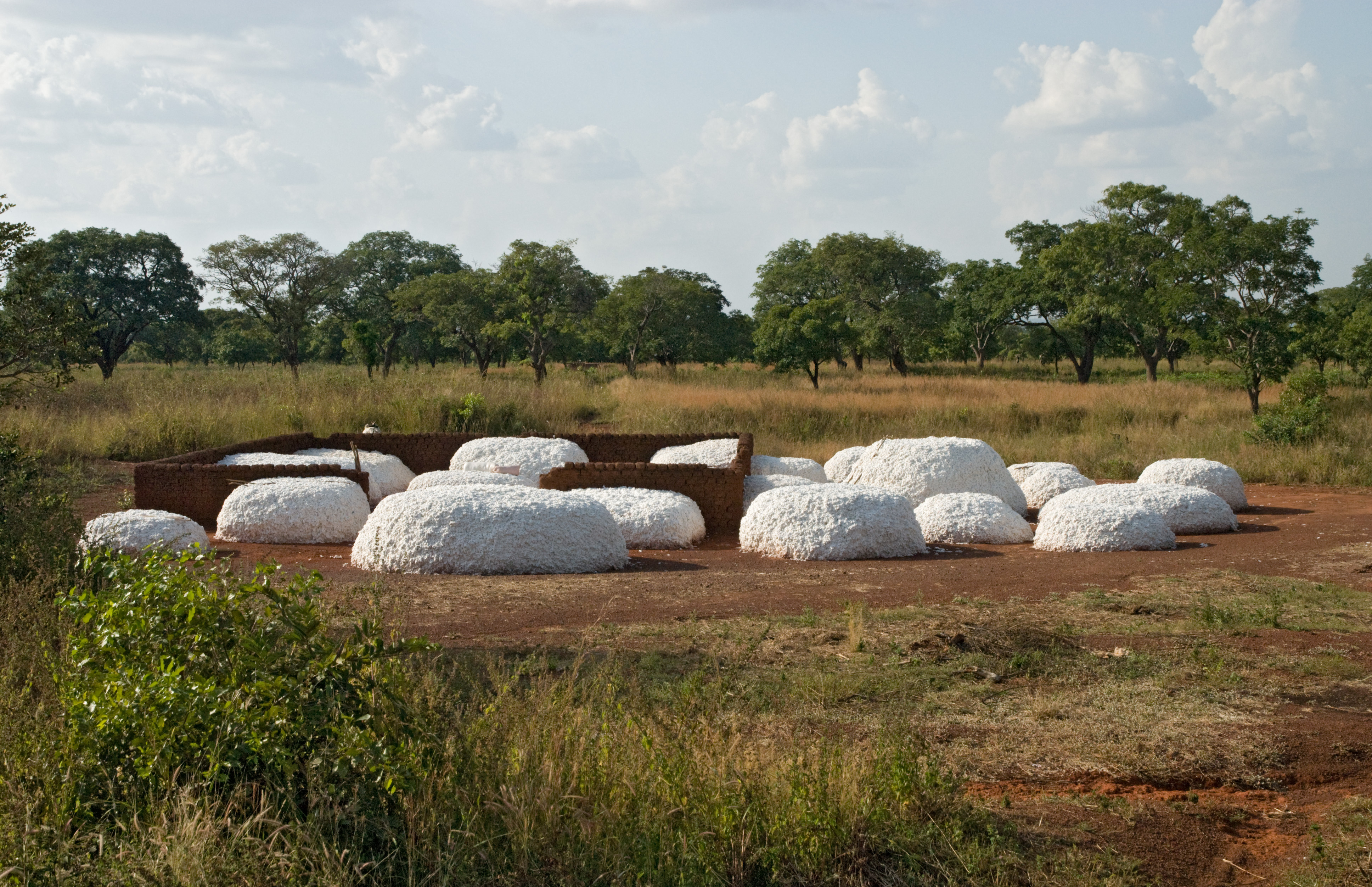 Village-level seed cotton collection point (Noumoudara, Péni Dept, Houet Prov., Burkina Faso, November 2014)